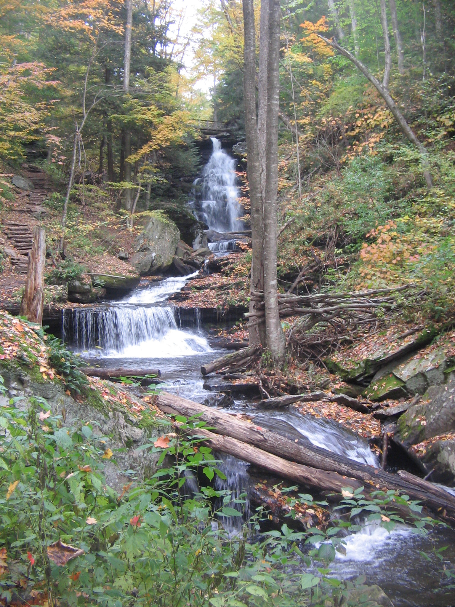 Full view of Ozone Falls (60 feet (18.3 m) tall) and the bridge above it on Kitchen Creek on the Glen Leigh trail in Ricketts Glen State Park, Fairmount Township,Luzerne County, Pennsylvania, USA. It is the fourth of eight named waterfalls in Glen Leigh on Kitchen Creek, going upstream from Waters Meet, and one of twenty two named waterfalls in the park, according to the Pennsylvania Department of Conservation and Natural Resources.